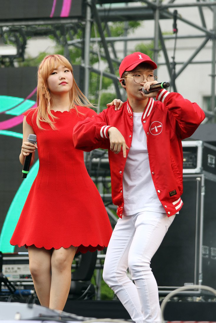 Akmu performing at Ipselenti Korea University Campus Festival in 2016